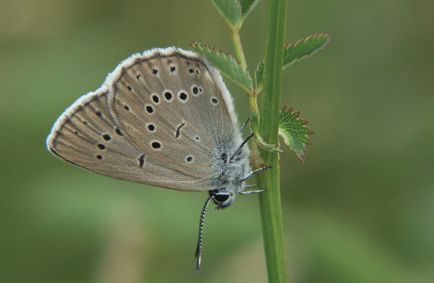 Phengaris teleius.